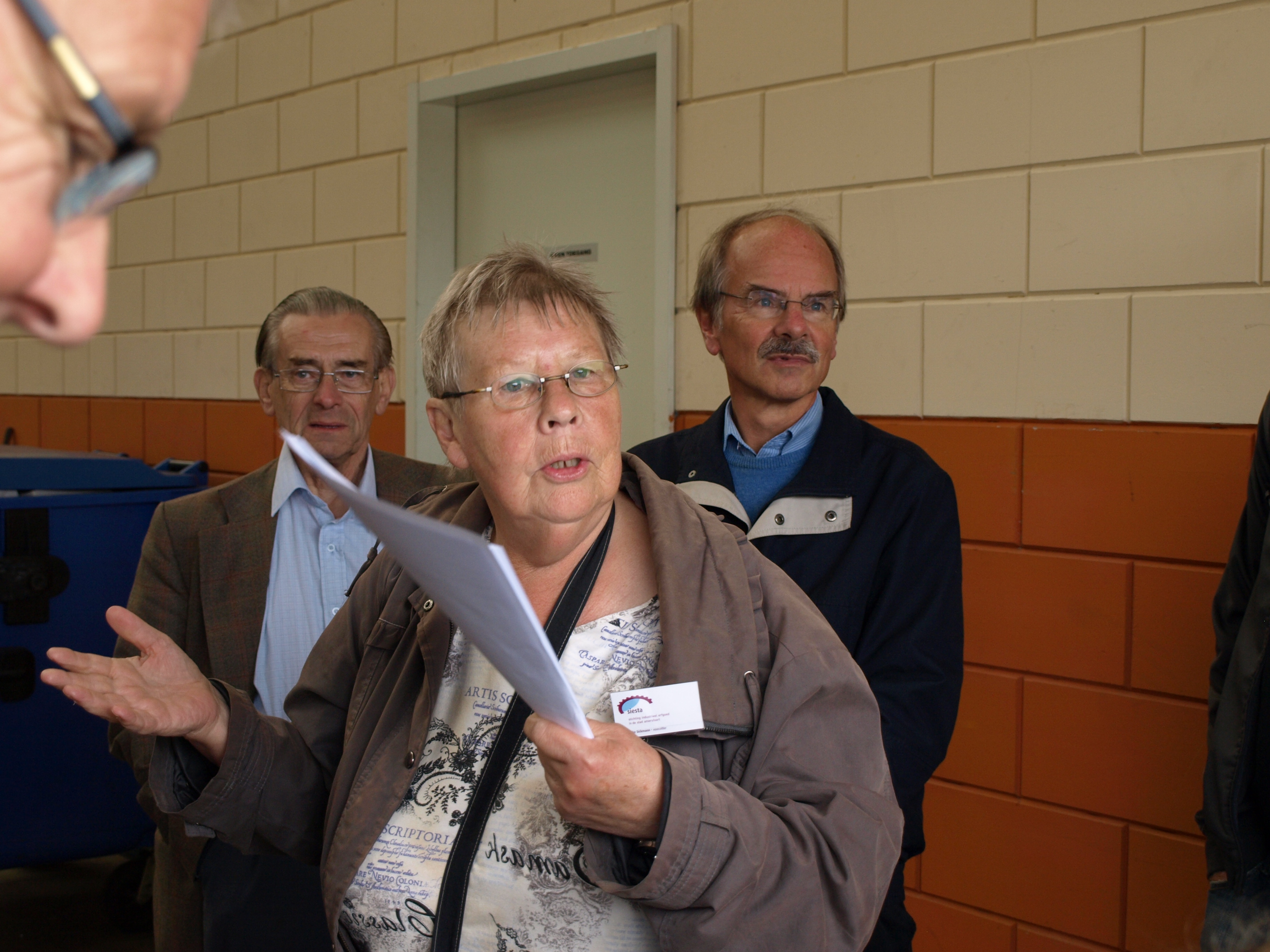 Amersfoort Railway Workshop - Joke Sickmann explains that the site is protected as a heritage site; background right: Arriën Kruyt